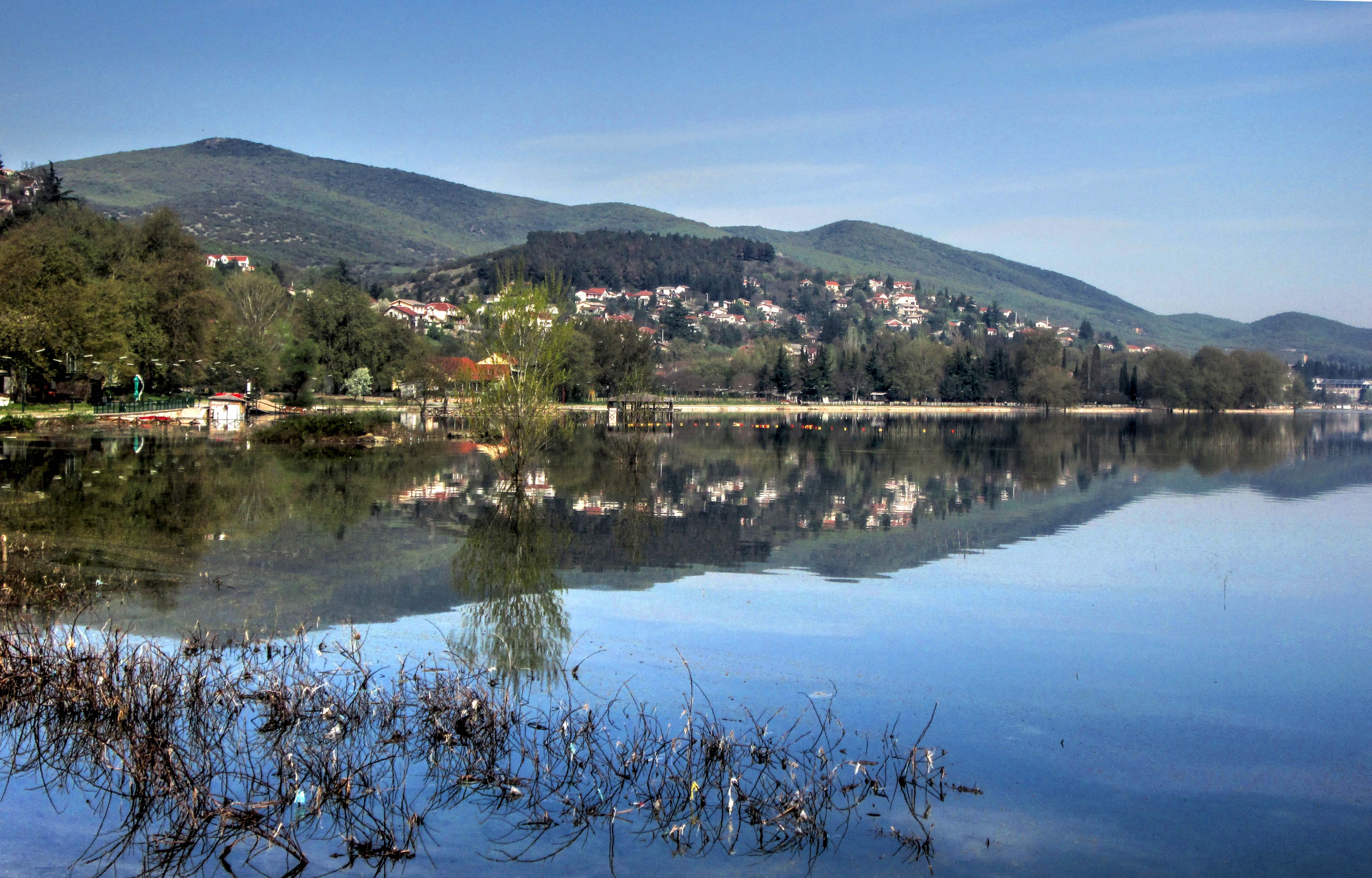 View to the Dojran Lake & Dojran town